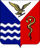 Essentuki (Stavropol krai), coat of arms